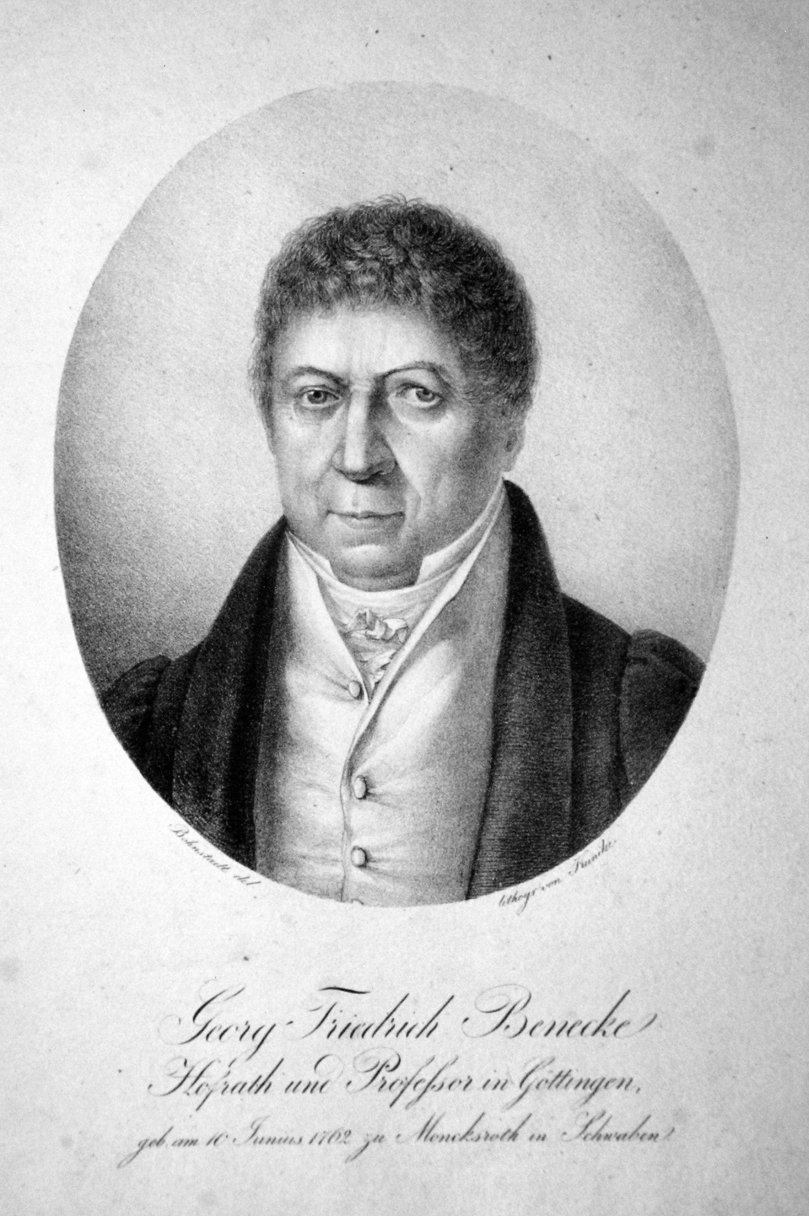 Georg Friedrich Benecke (1762-1844) Philologist. Lithograph by Adolf Kunike